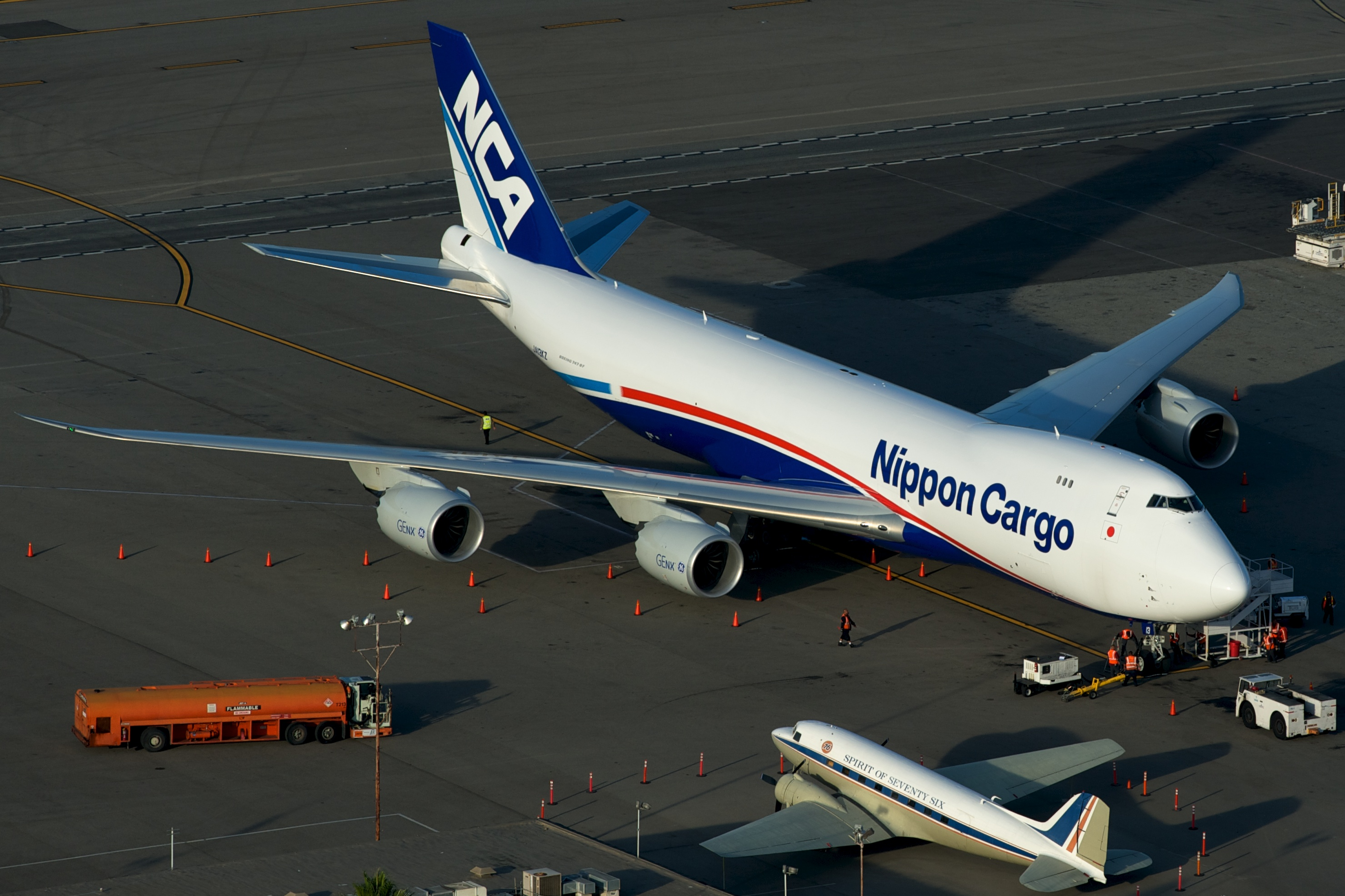 South Cargo, LAX.